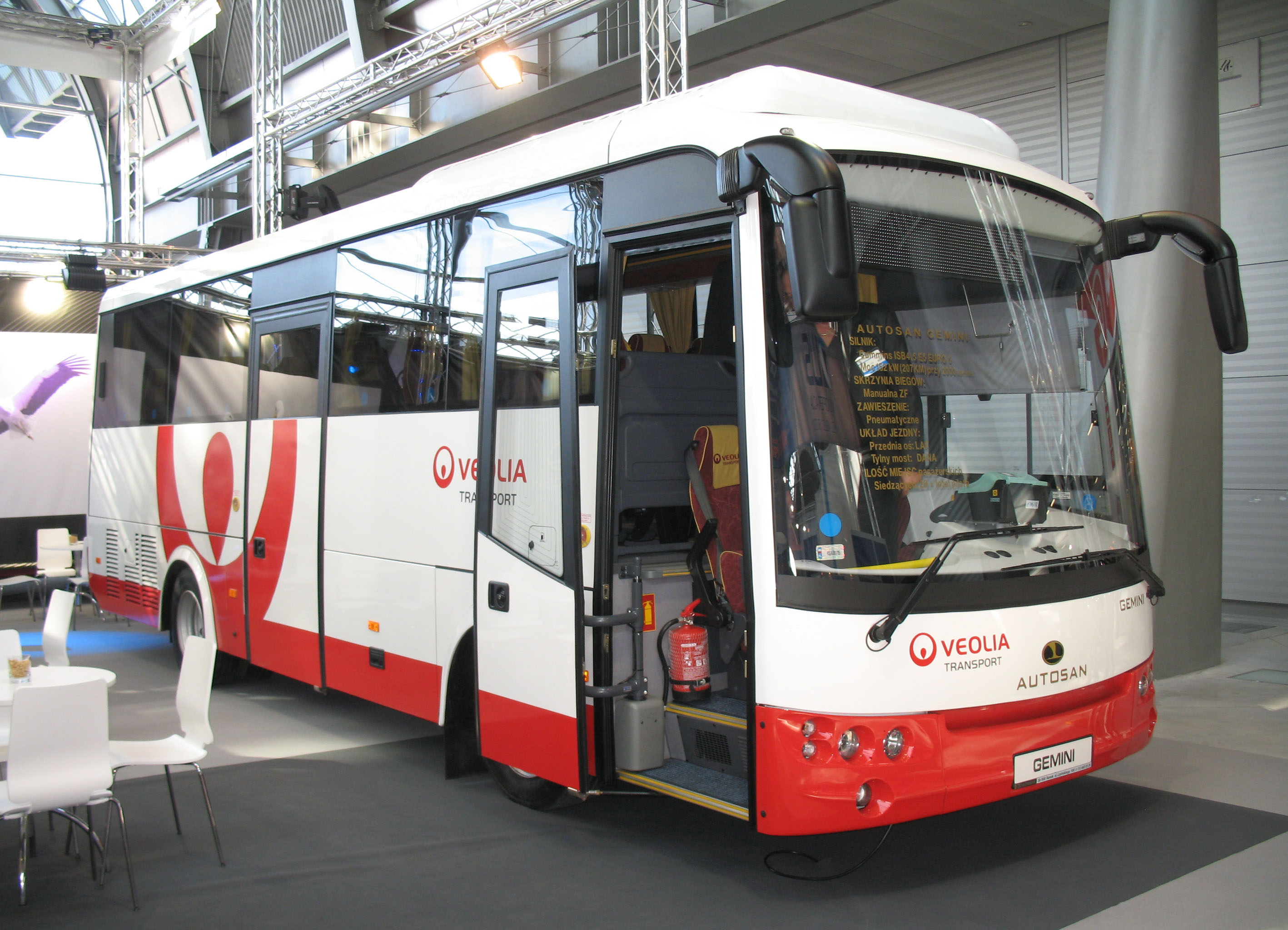 Autosan A0808T Gemini bus in Kielce, Poland. Built 2010, Veolia Transport Oddział Sanok operator. Transexpo 2010.